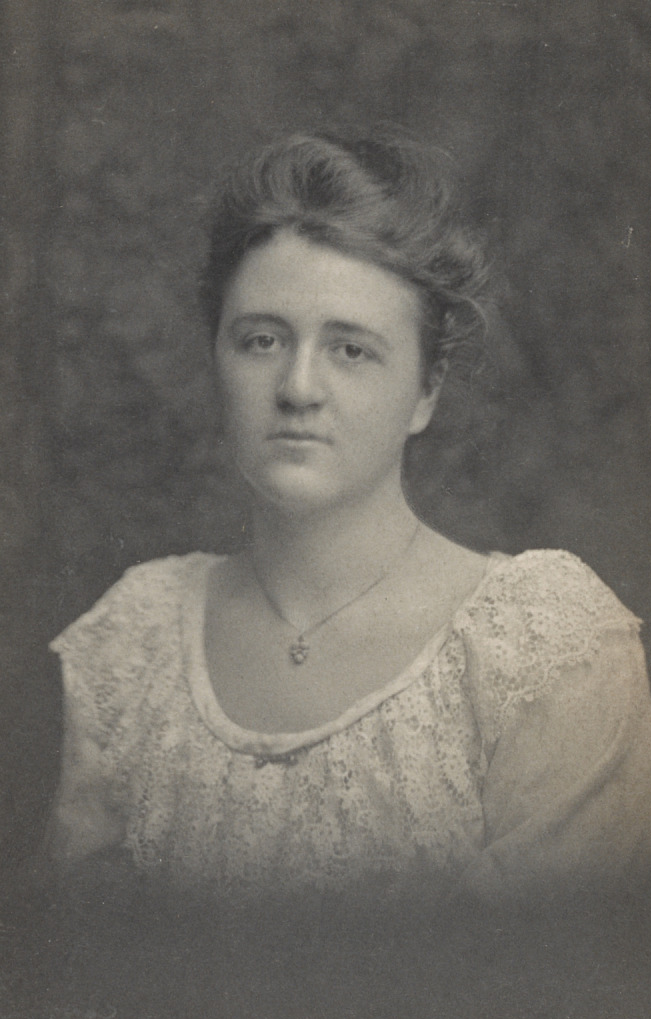 Photograph of artist Beatrice Fenton, ca. 1910